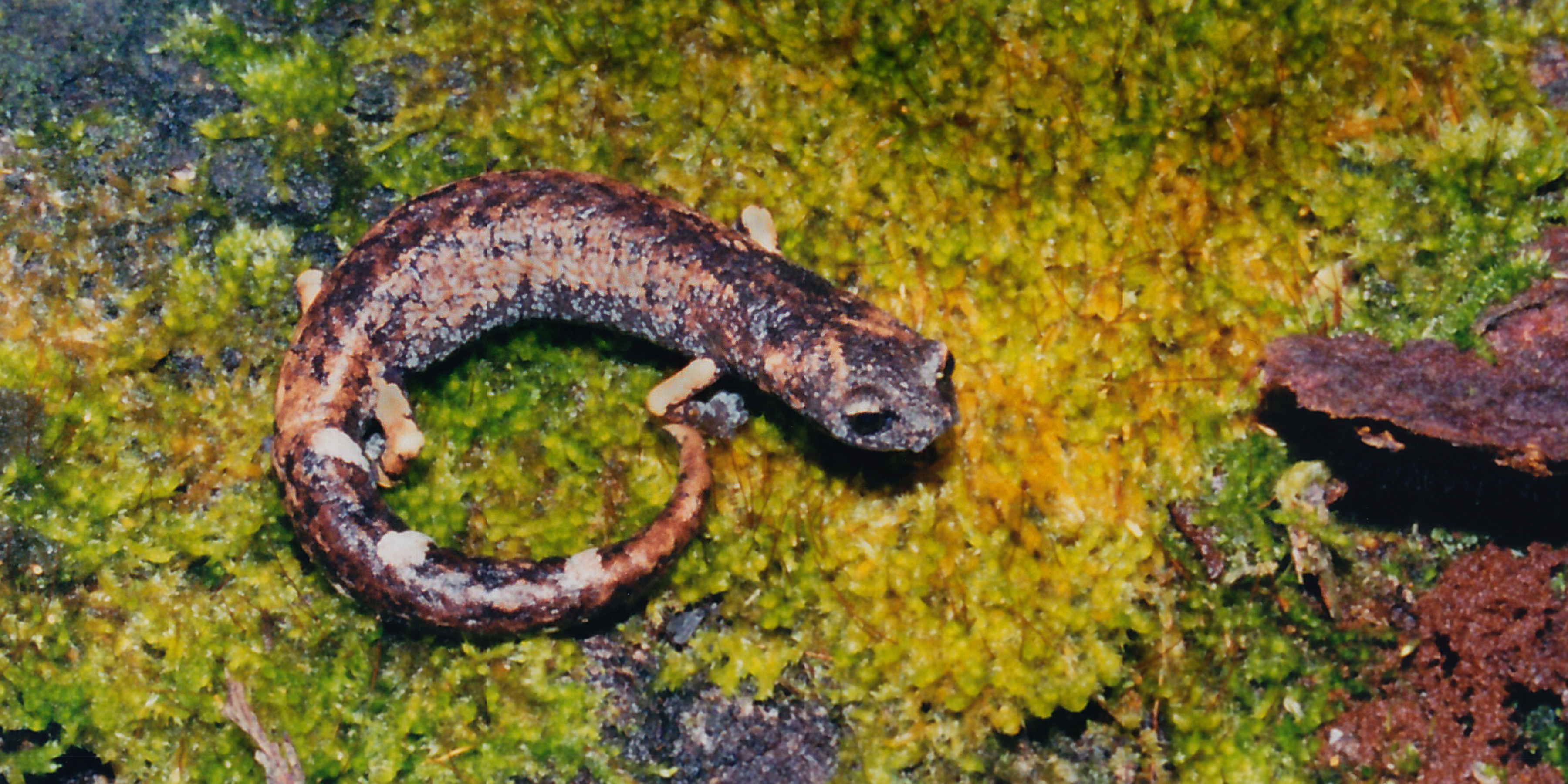 Chunky False Brook Salamander (Aquiloeurycea cephalica), El Cielo Biosphere Reserve, Municipality of Gómez Farías, Tamaulipas, Mexico. Photographed on 12 August 2004 by William L. Farr. This image was originally photographed with film and later scanned from a print.